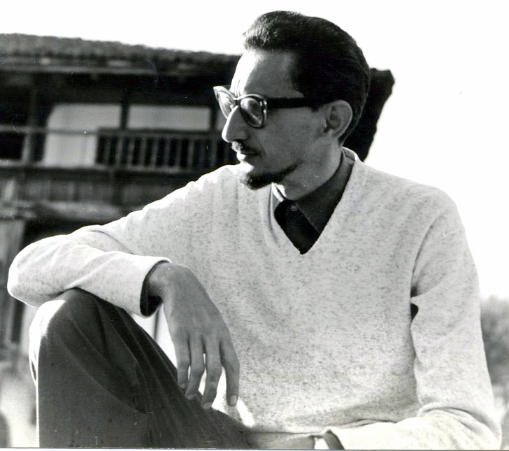 Pekic at Jastrebac, 1963